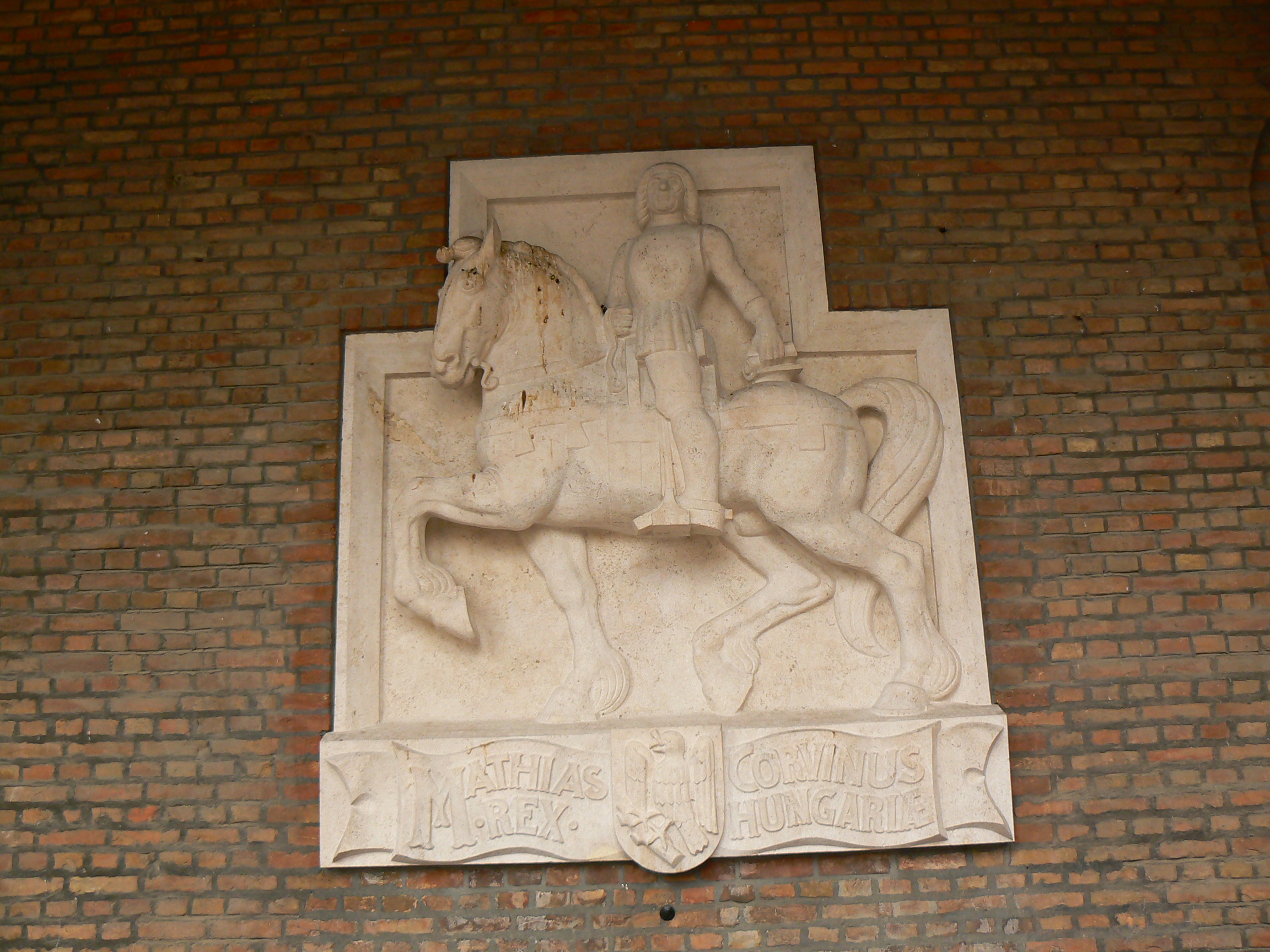 Béla Ohmann scilptor Mathias rex, 1930